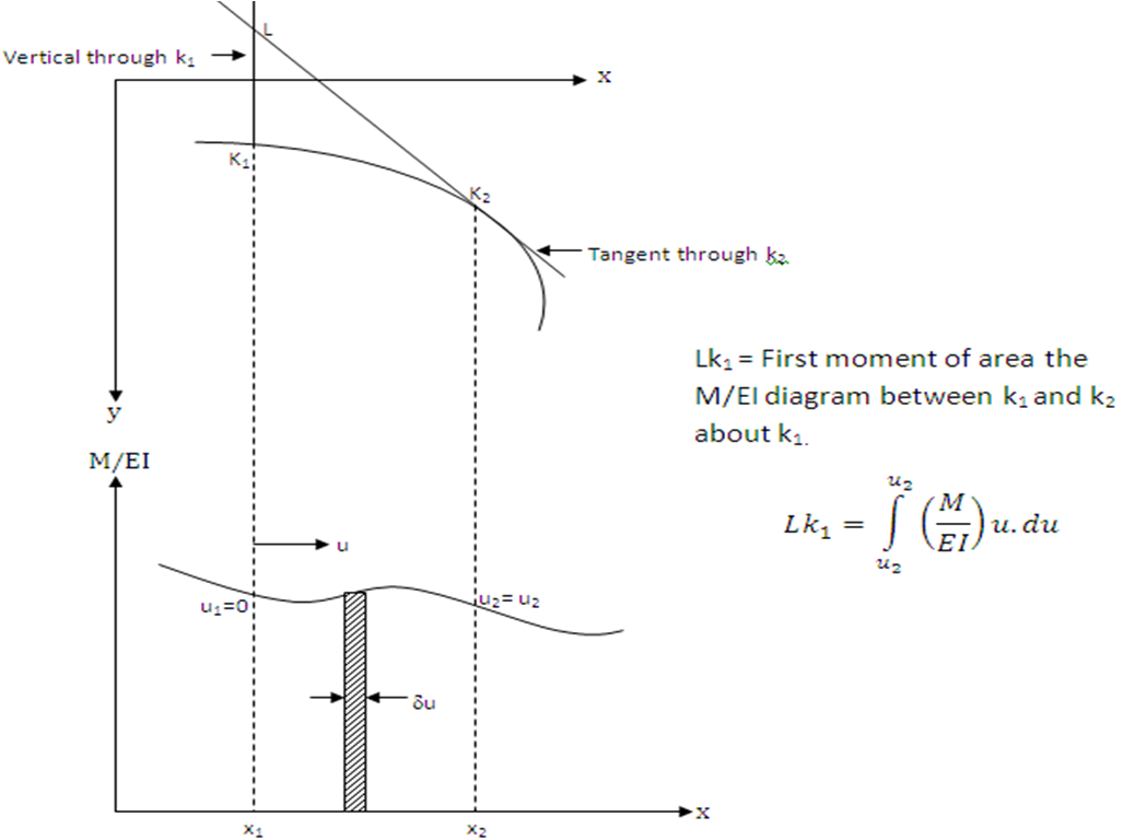 This figure shows Mohr's second theorem